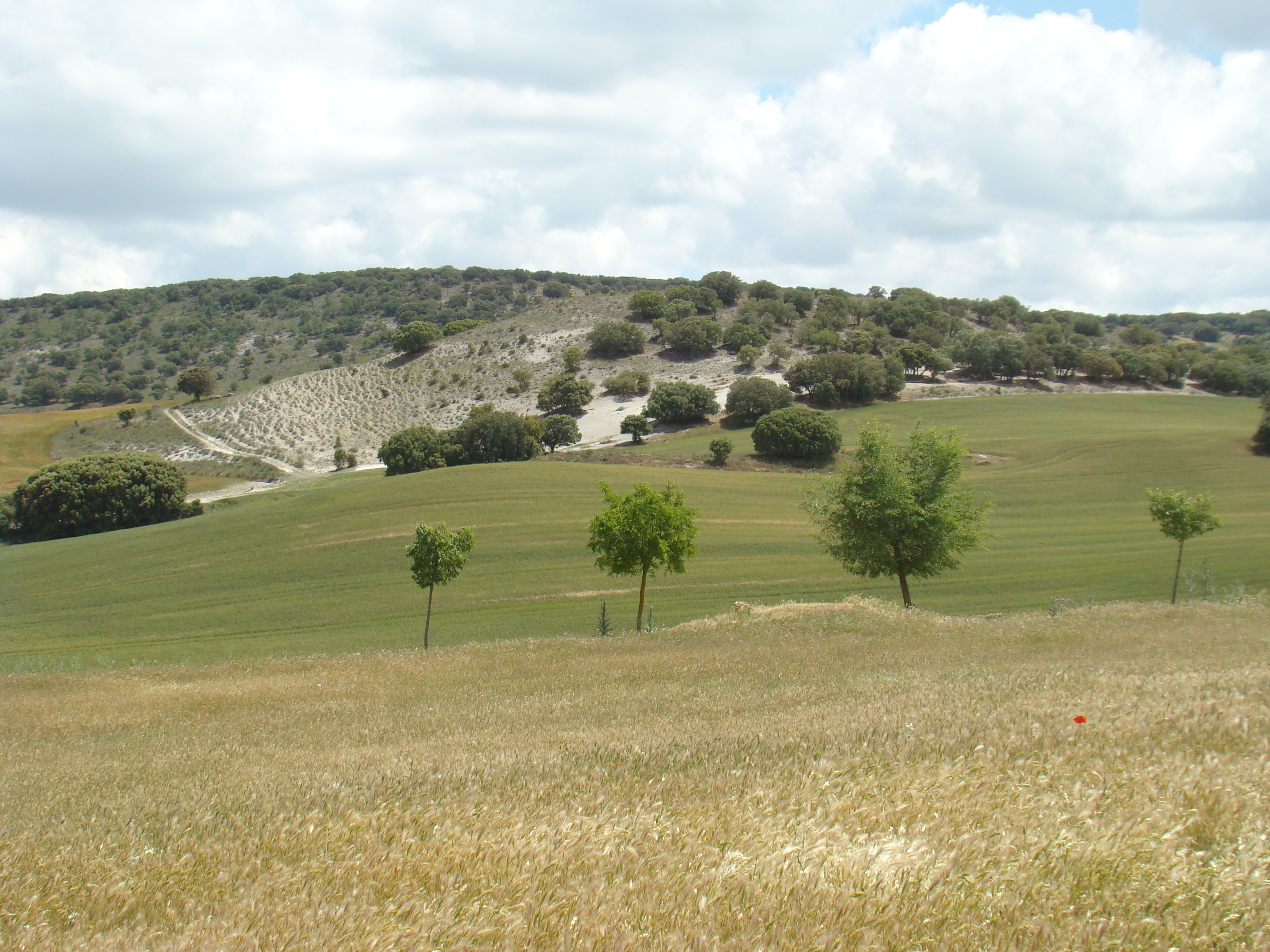 The place known as Granja de San Andrés is located in the «benigno valley», 3.5 km from the municipality of San Martín de Valvení, province of Valladolid, Castilla y León, Spain. His life began as a Benedictine monastery called San Andrés de Valbení but as the monks moved to the new monastery of Palazuelos, the place became a priory. In the 21st century the place is conserved as an agricultural farm although the old buildings have not been kept in good condition nor has been used, so that their remains deteriorate from year to year. Landscape of the environment.